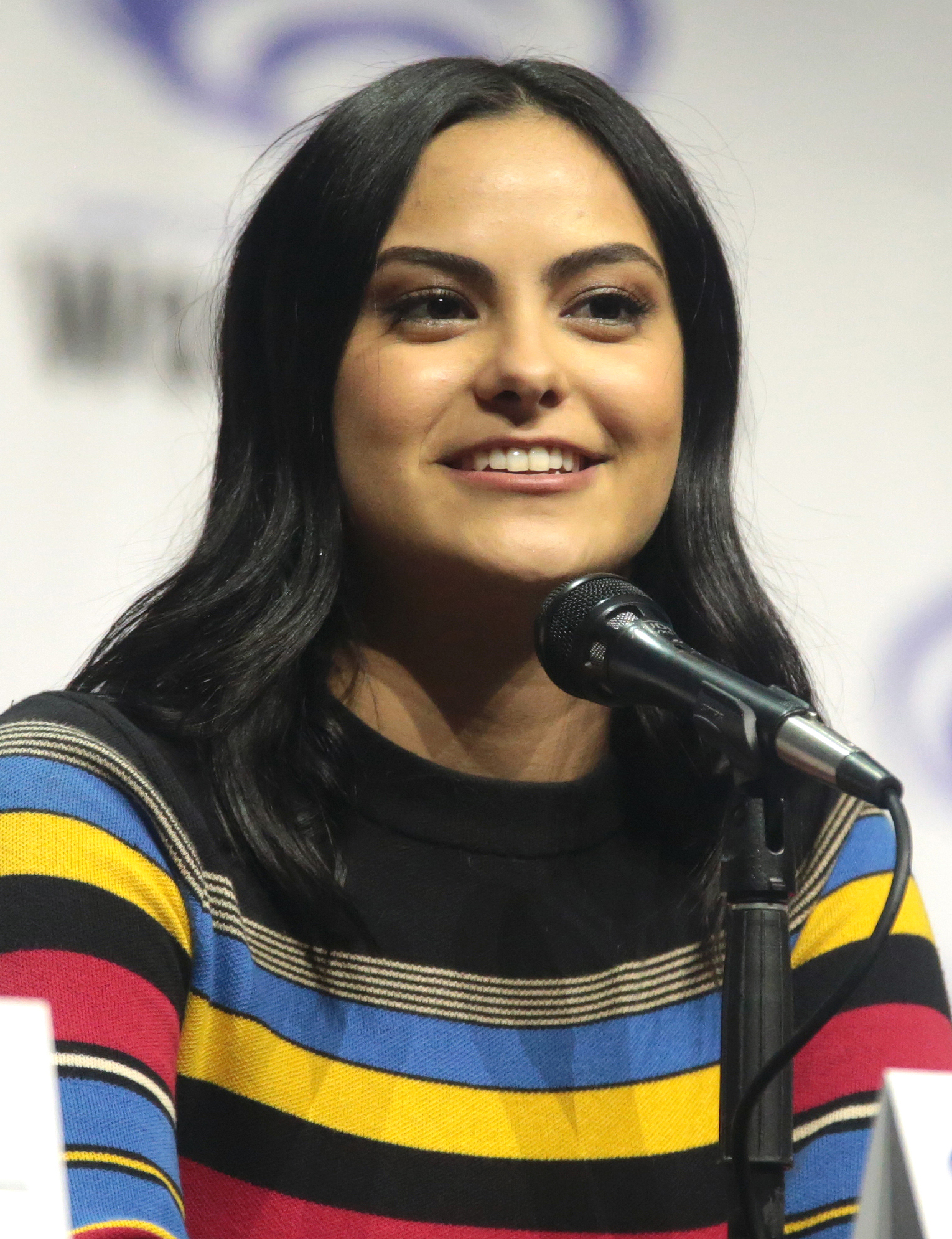 Camila Mendes speaking at the 2017 WonderCon in Anaheim, California.